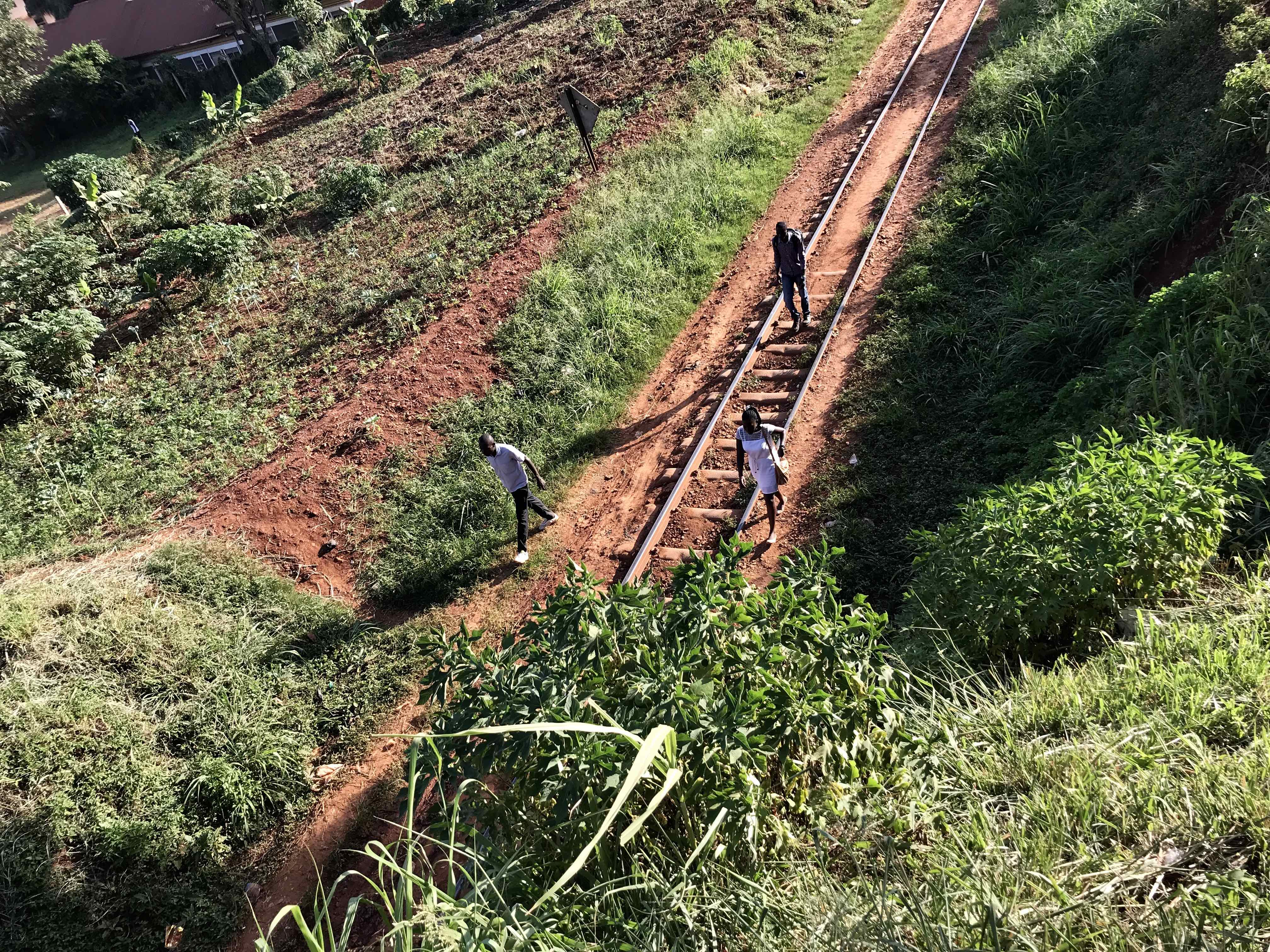 Pedestrians walk along the train tracks, at the end of the day in Kampala This is an image with the theme "Africa on the Move or Transport" from: Uganda